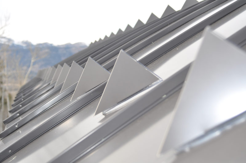 Snow Guards with Color Armor on roof in Jackson, WY, USA by Sno Shield